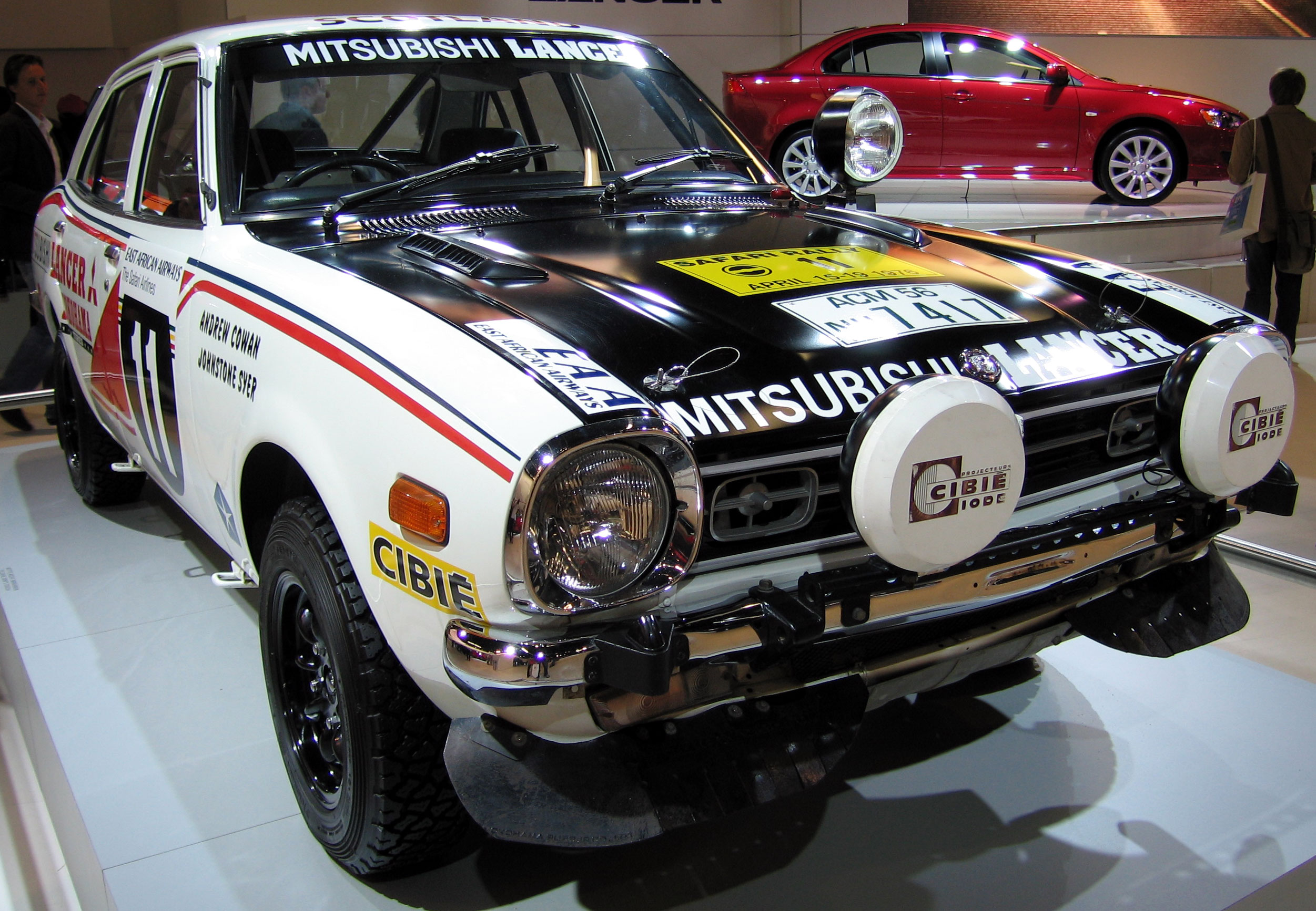 Mitsubishi Lancer 1600 GSR at the IAA 2007